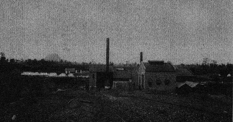 Singareni coal field, Hyderabad state. Power station supplying electricity at 2200 V, 25 cyles